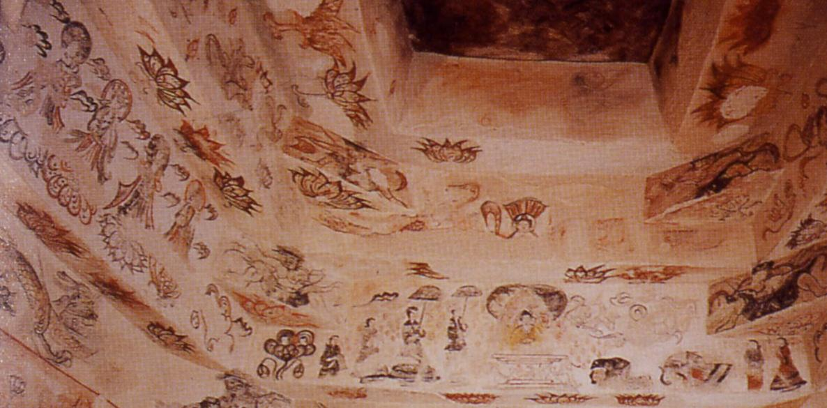 Detail of Worshipping Buddha and Bodhisattvas, Gaojuli, Early 5th century. Mural painting, eastern ceiling of main burial chamber, Dong gou Tomb No.1, Jian, Jilin province, China.